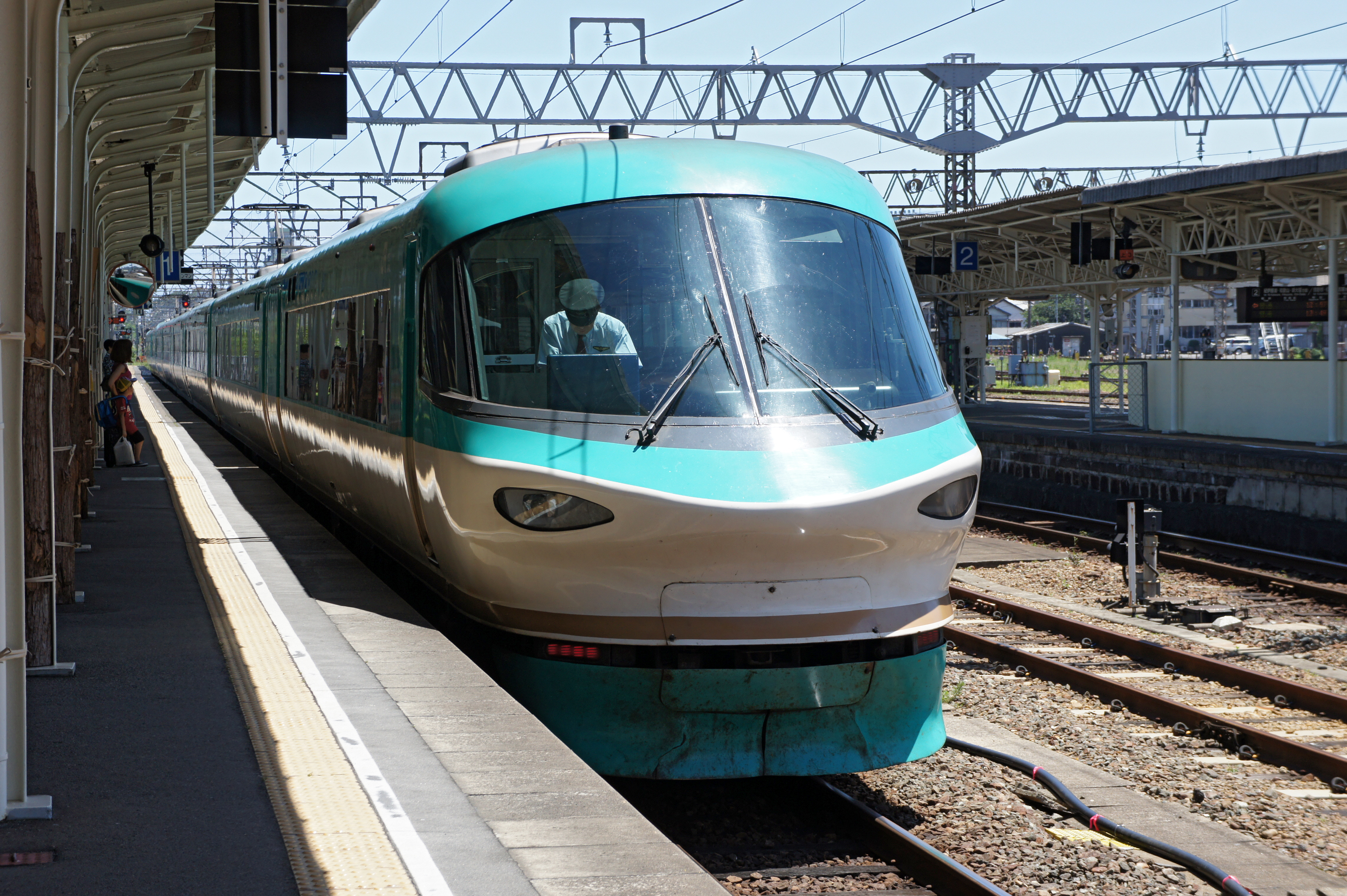 Shingu Station in Shigu, Wakayama prefecture, Japan